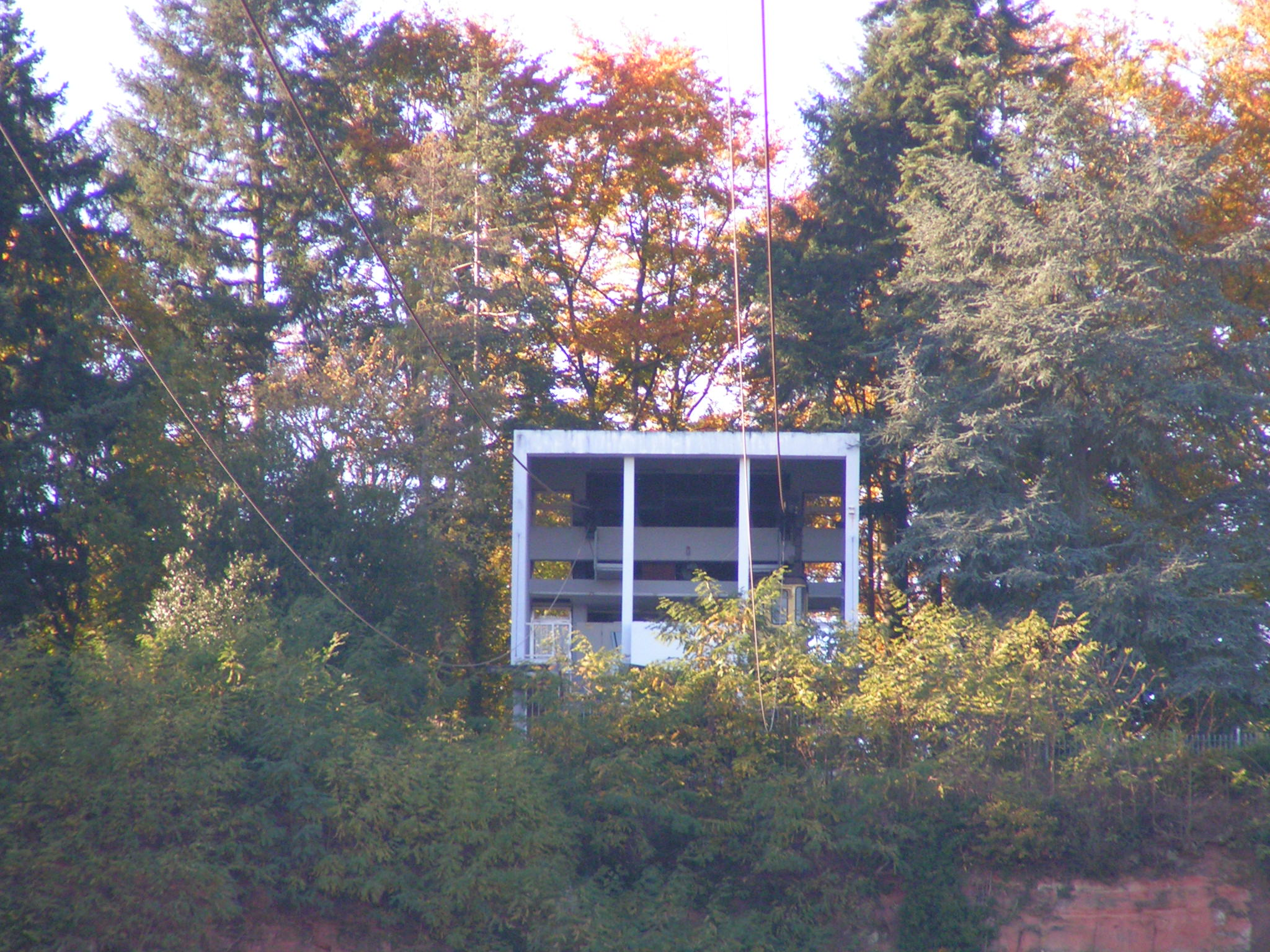 Kabinenbahn, Trier, Germany